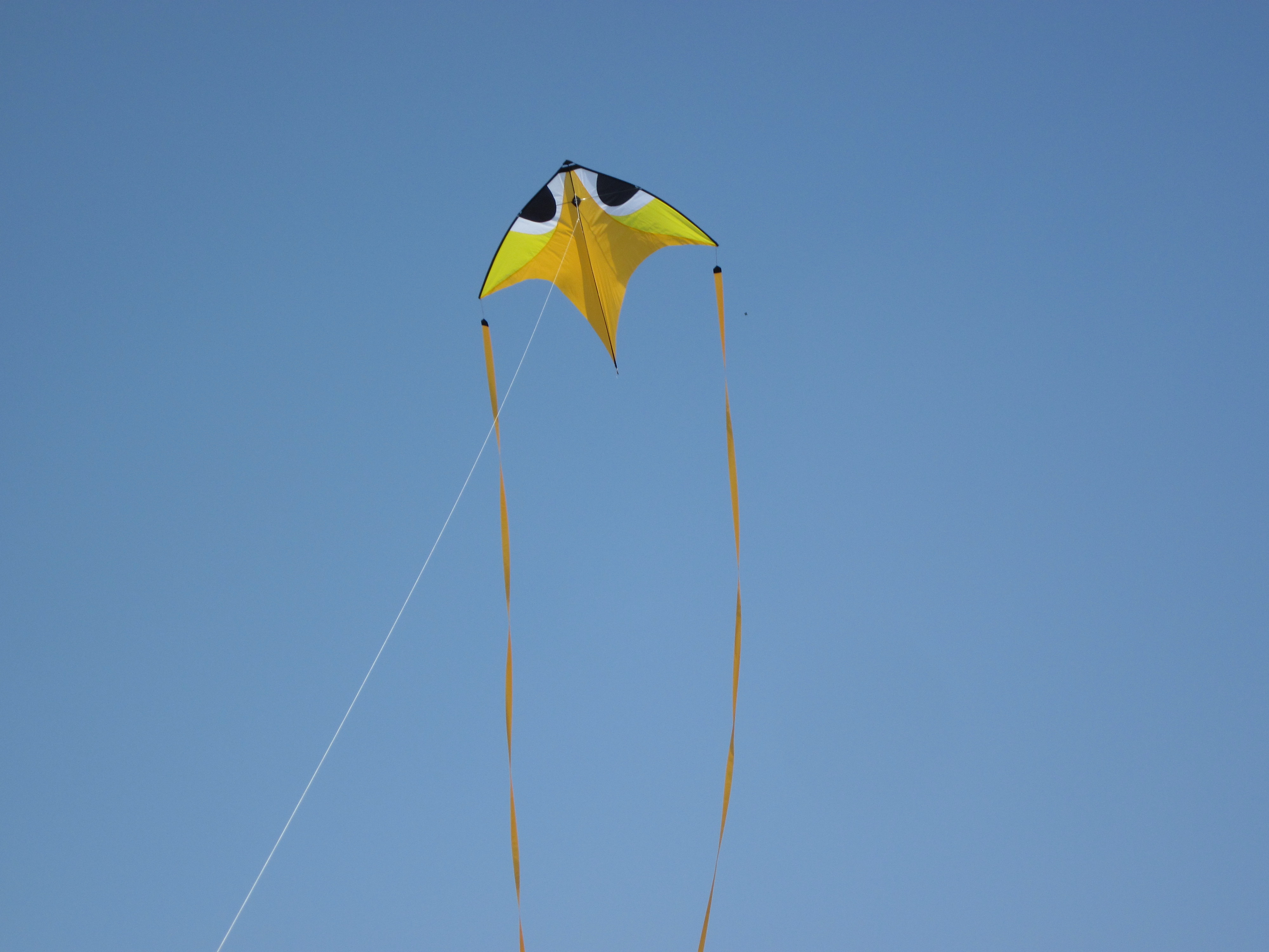 It called makar sankranti or a festival of kite flying. when sun go to north pole or in his zodiac sign Capricorn.this festival organized then or every year 14 th January.